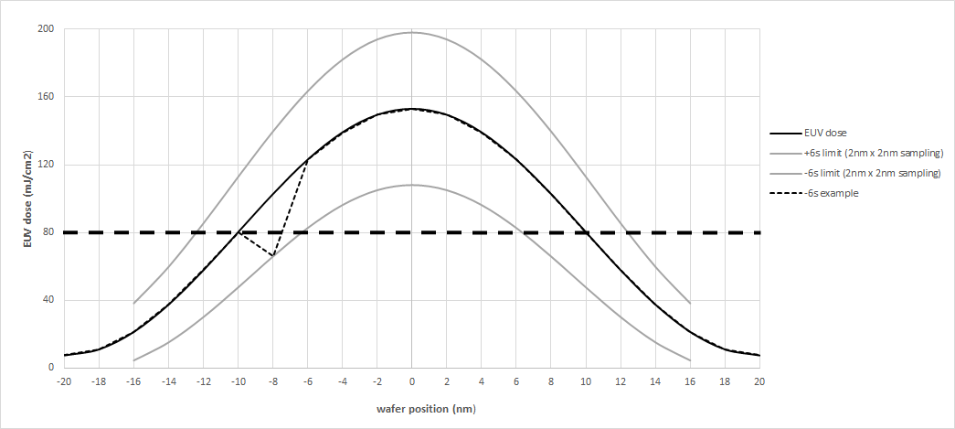 The -6 sigma dose variation at a given location can cause local dose to go below the threshold level. Threshold dose is 80 mJ/cm2. Image averaged over 2 nm x 2 nm. Ref.: A similar discussion is provided at: C. A. Mack, More on Stochastics and the Phenomenon of Line-Edge Roughness, 34th International Photopolymer Science and Technology Conference, 6/28/2017, p. 19.